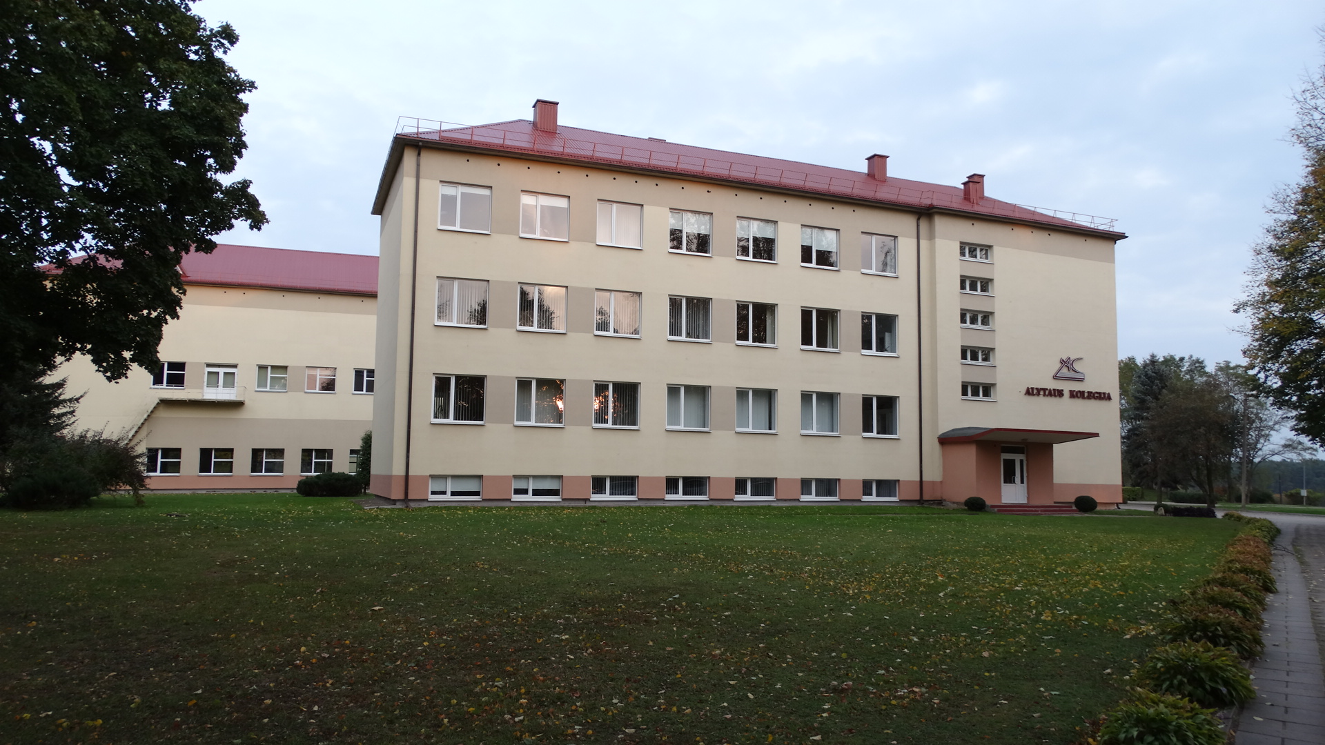 College, Alytus, Lithuania